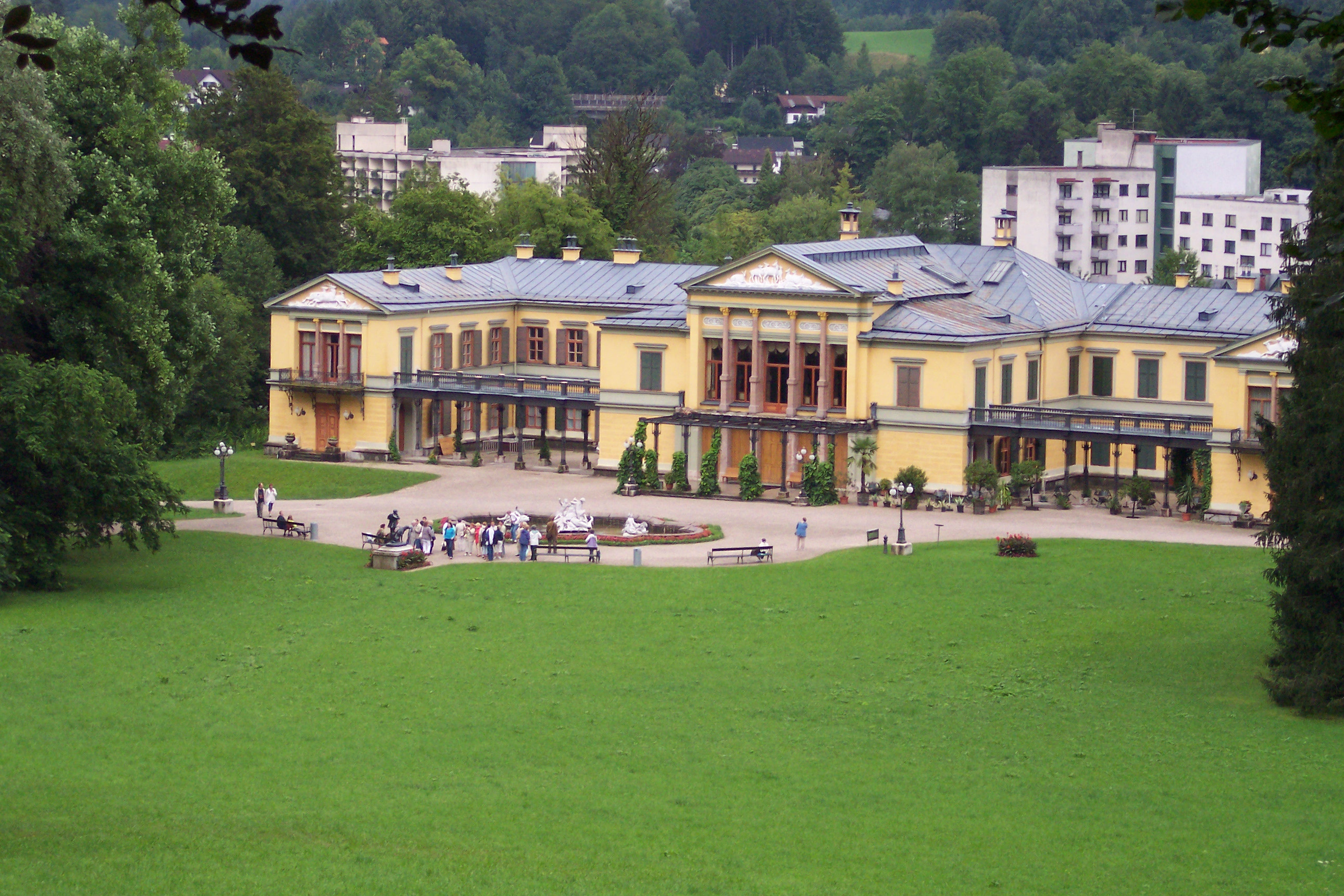 Austria, Bad Ischl, Kaiservilla